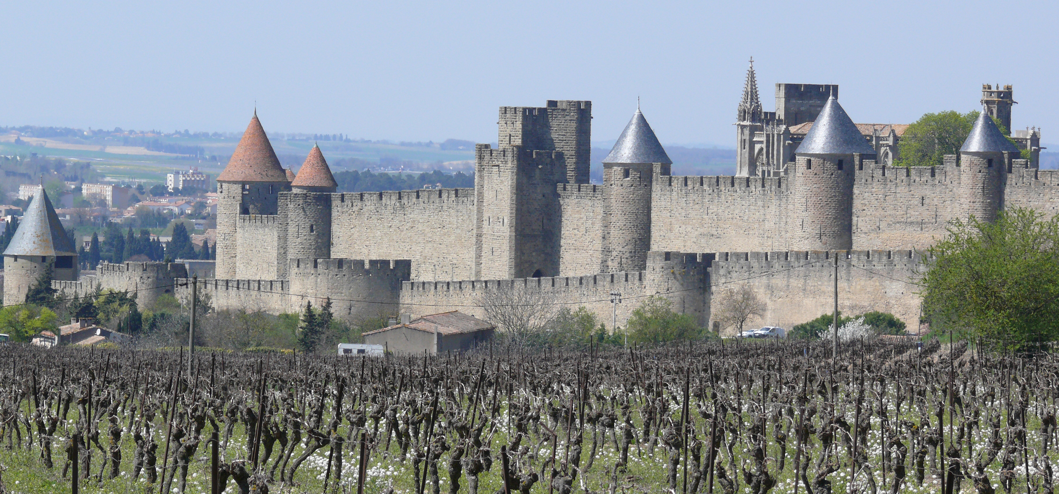 View of the old town of Carcassonne